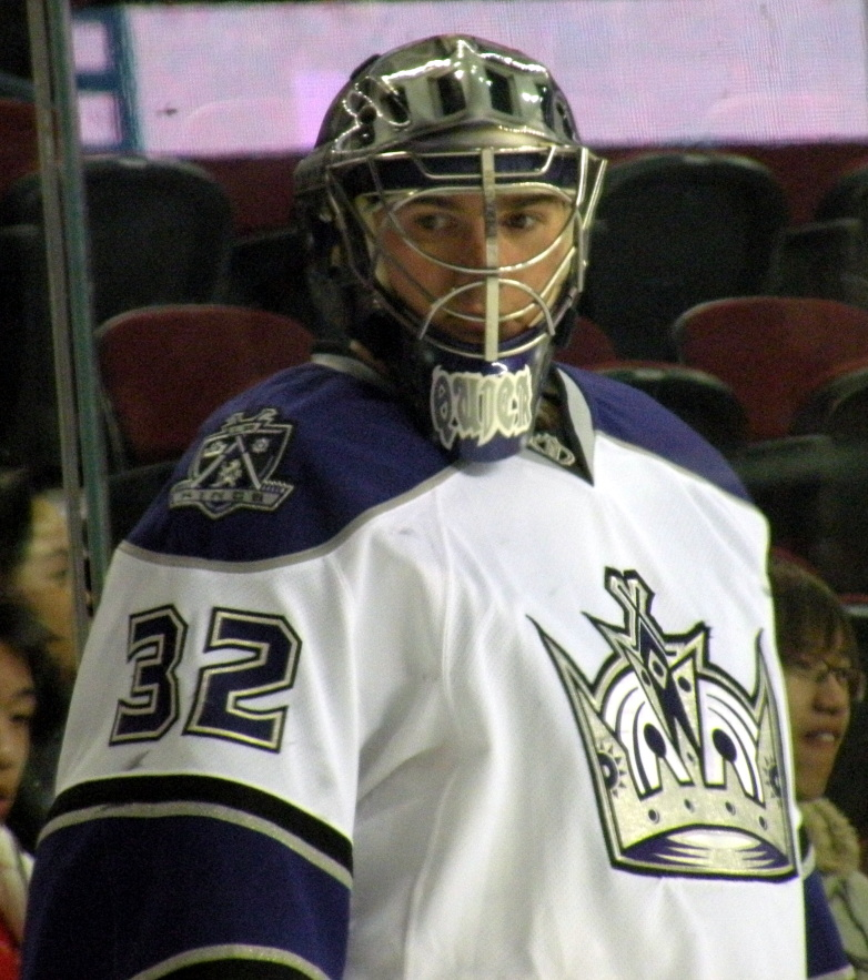 Los Angeles Kings goaltender Jonathan Quick during warmup prior to a National Hockey League game against the Calgary Flames in Calgary.